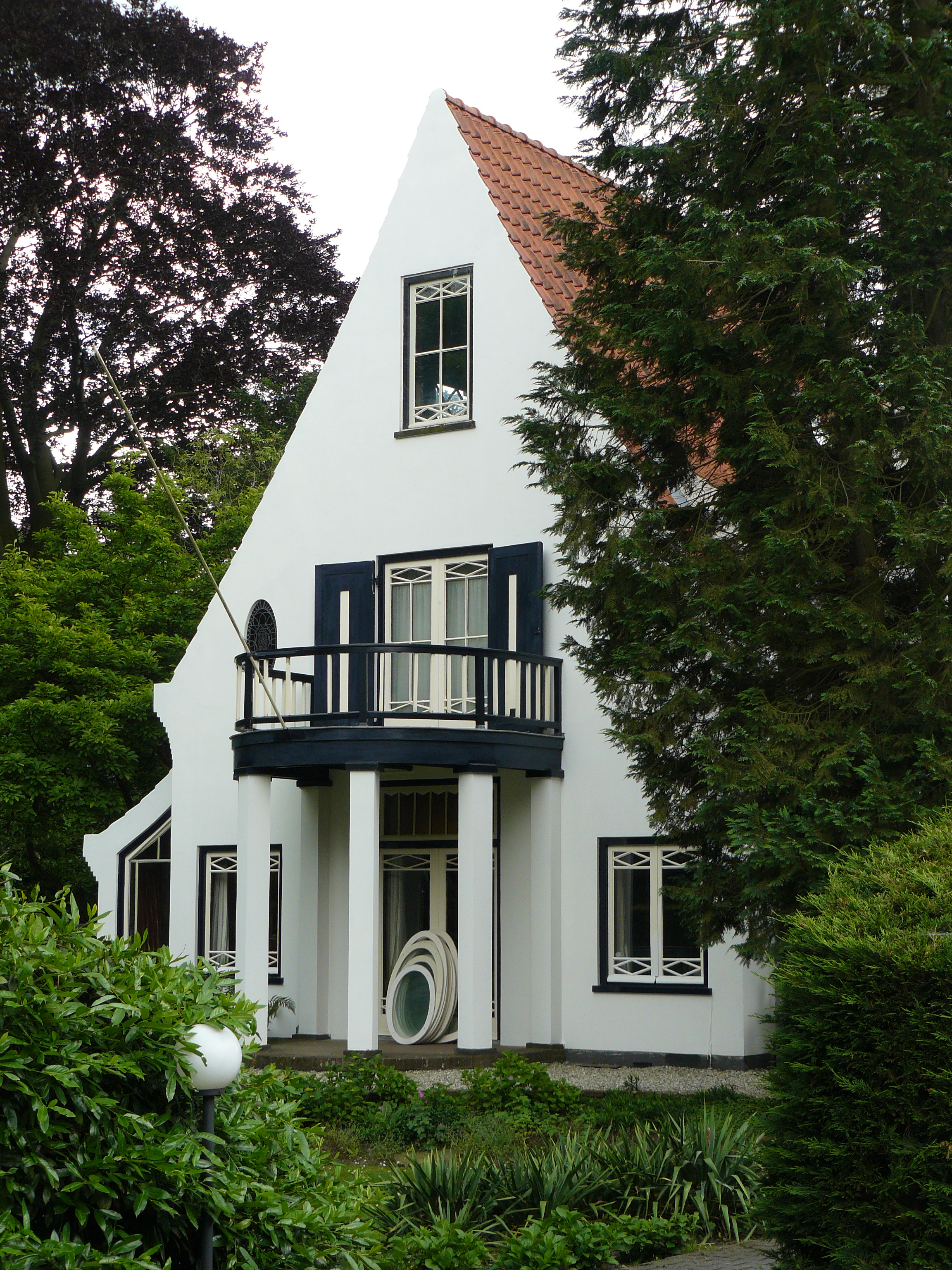 NL-Warnsveld (Zutphen) - Rijksstraatweg 156 - Rijksmonument 515848